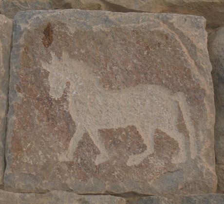 Al-Ukhdud, ancient Himyarite kingdom